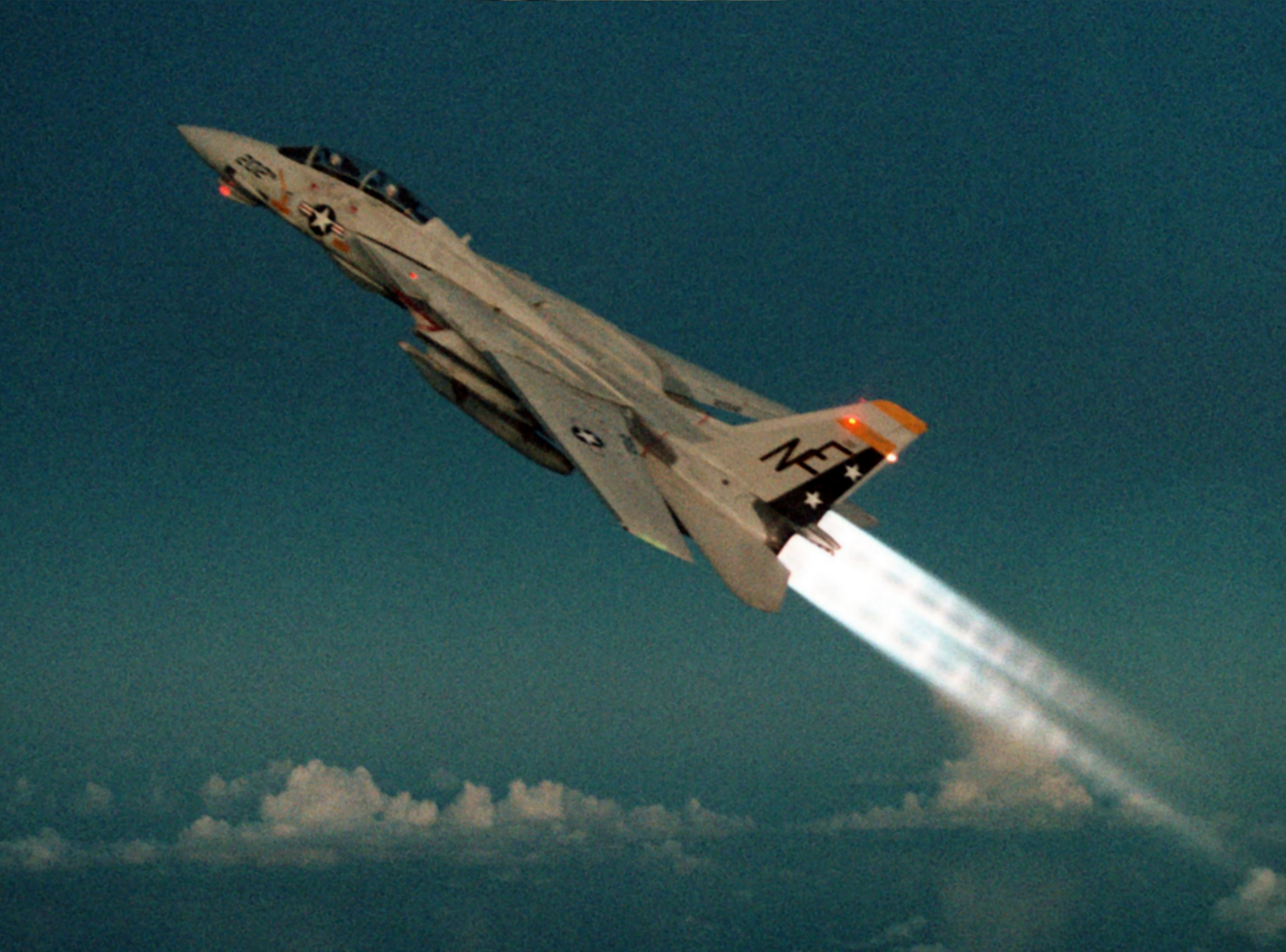 A U.S. Navy Grumman F-14A Tomcat from Fighter Squadron VF-2 Bounty Hunters climbs with its afterburners ignited, in 1989. VF-2 was assigned to Carrier Air Wing 2 (CVW-2) aboard the aircraft carrier USS Ranger (CV-61) for a deployment to the Western Pacific and the Indian Ocean from 24 February to 24 August 1989.